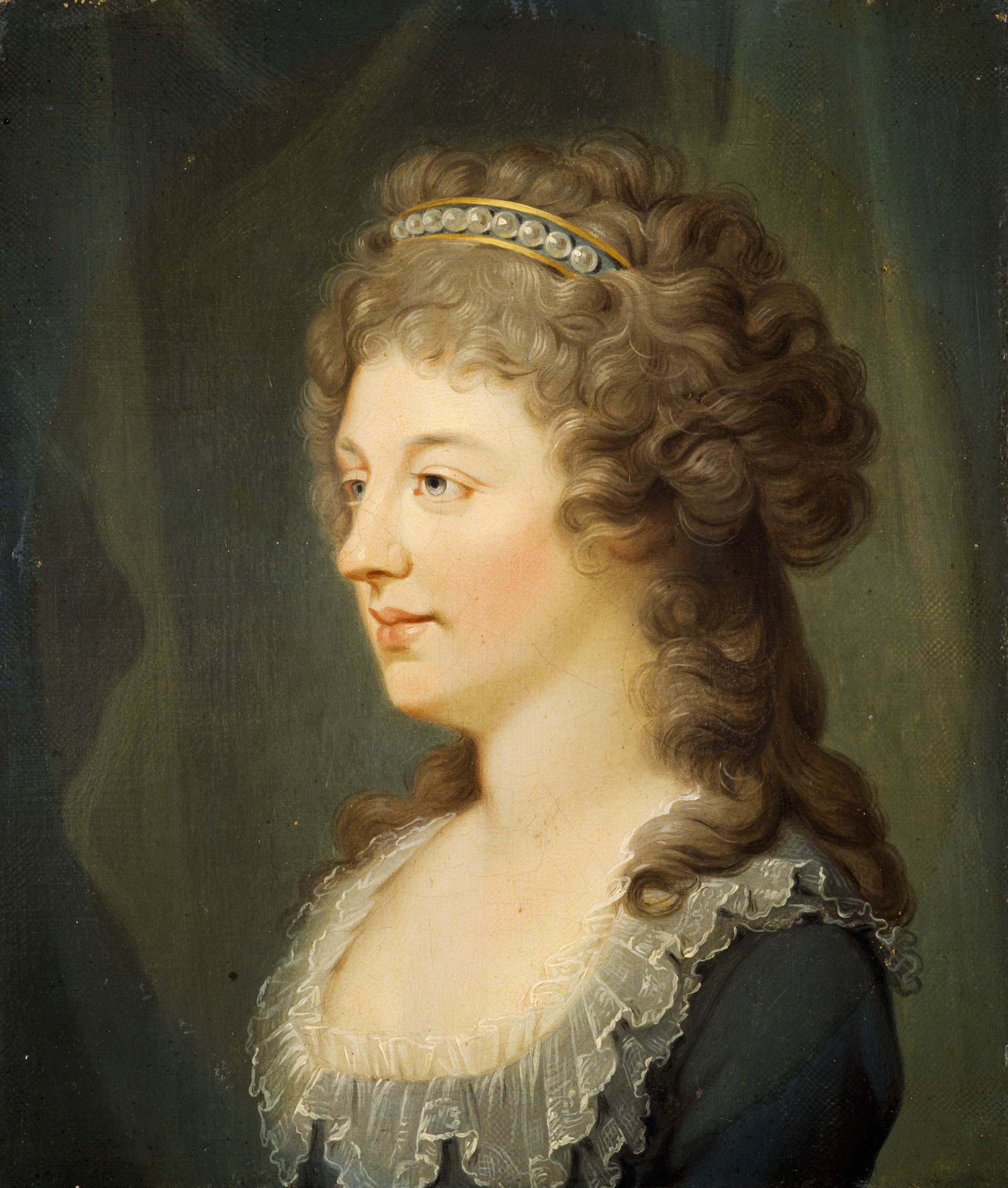 Portrait of Charlotte Stuart, Duchess of Albany (1753-1789)